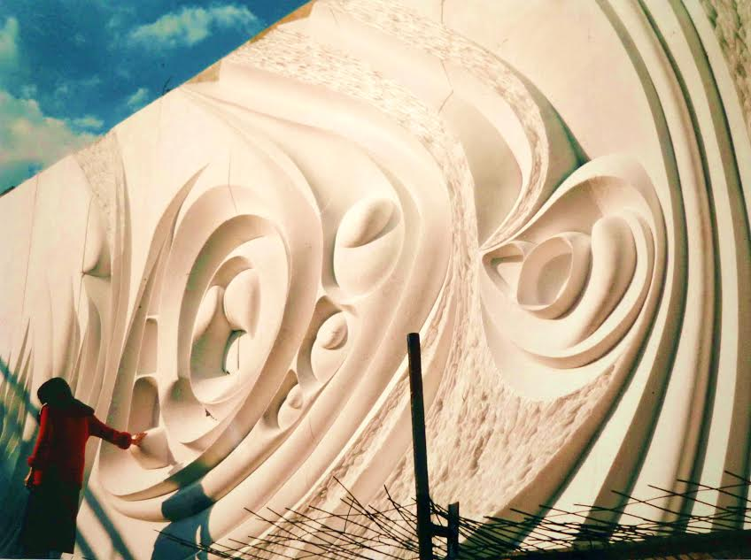 1978. High relief. Concrete